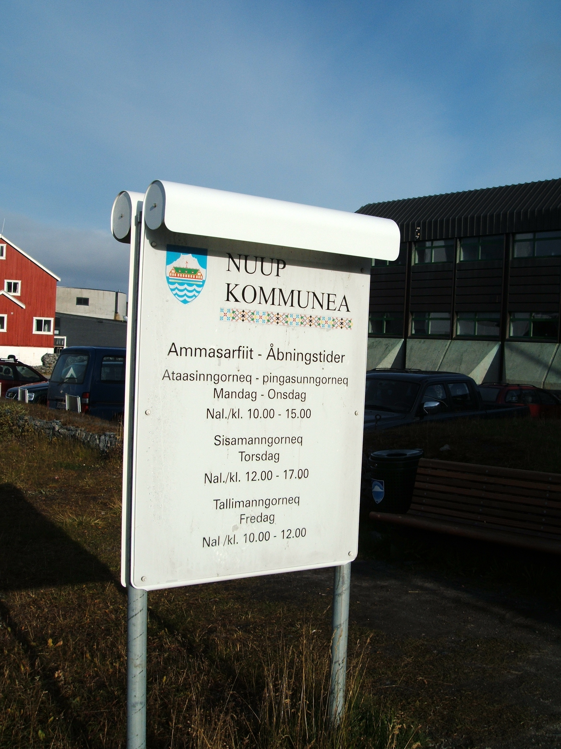 Picture of Official Nuuk Municipality